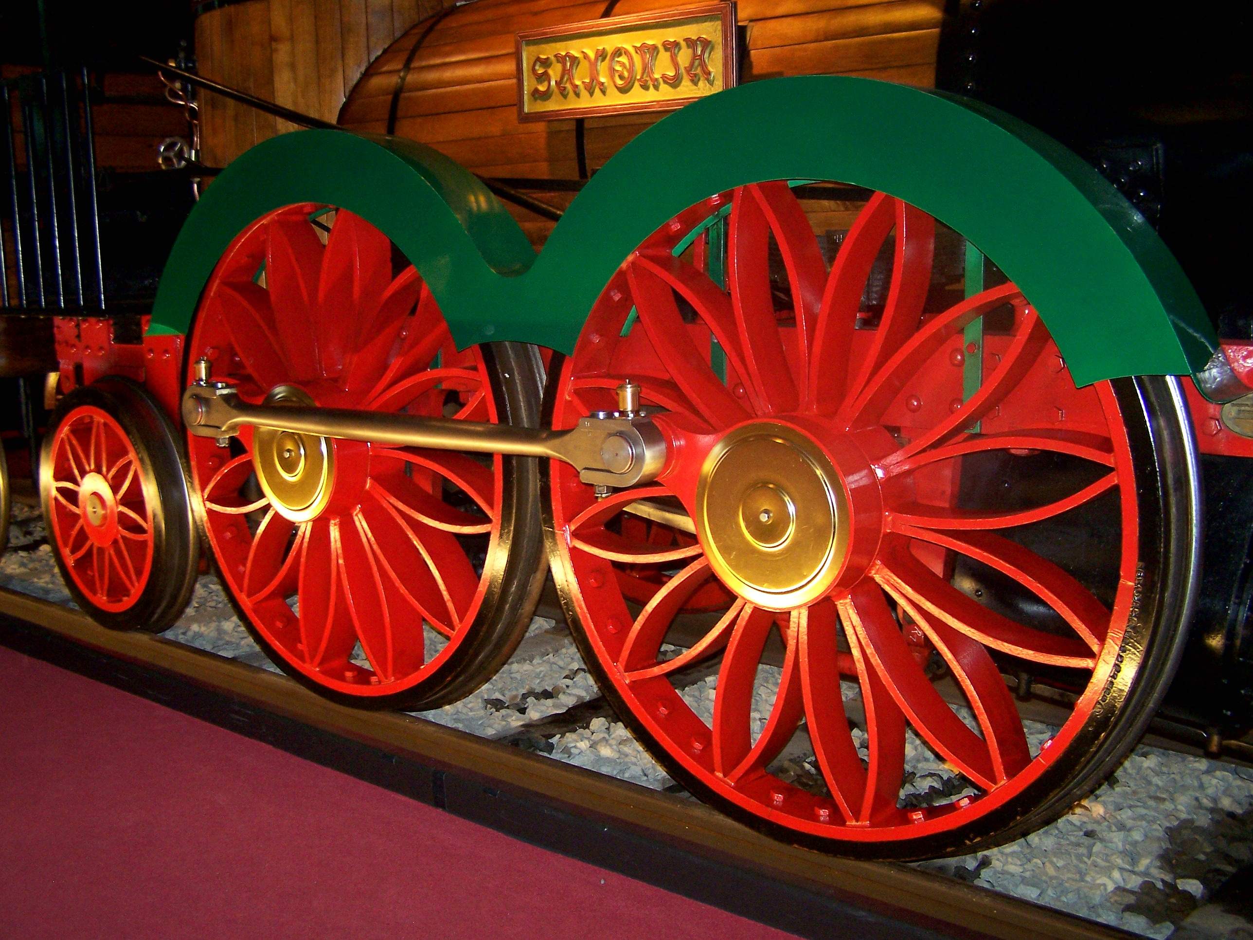 Wheels of the replica from 1989 of the historic steam locomotive Saxonia from 1838 in the Transport Museum in Nuremberg in the exhibition "Adler, Rocket and Co."